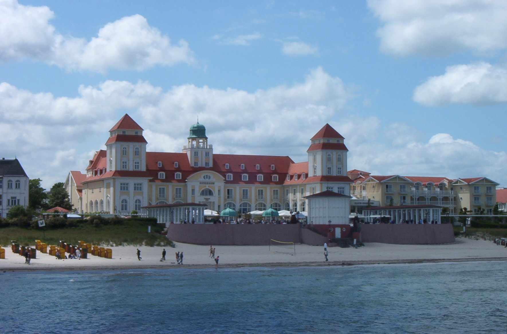 Binz on Rügen - spa hotel